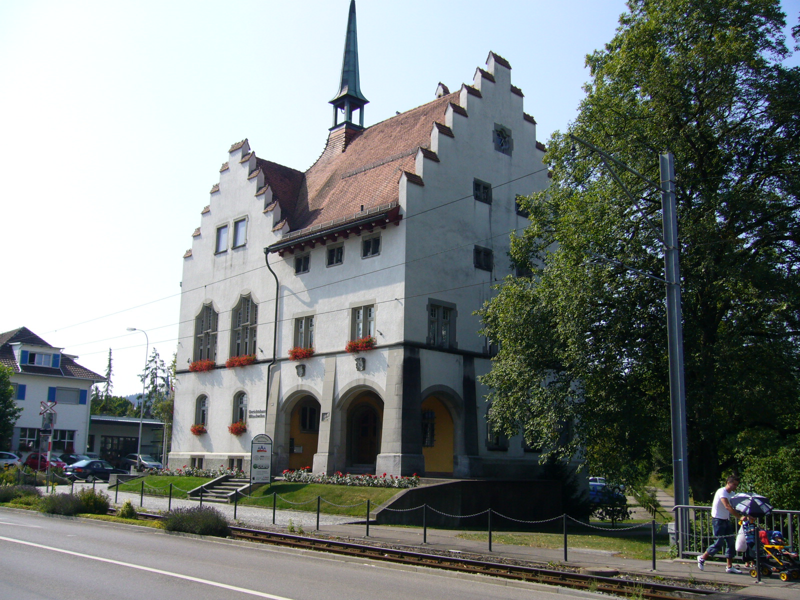 Gerichtshaus in Munchwilen, village in the canton of Thurgau. Picture by Peter Berger, July 23, 2006.